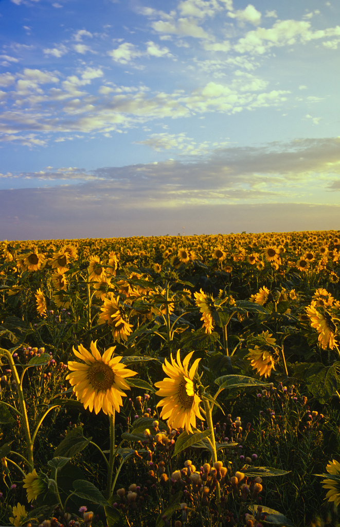 This image is free to use personally or commercially.